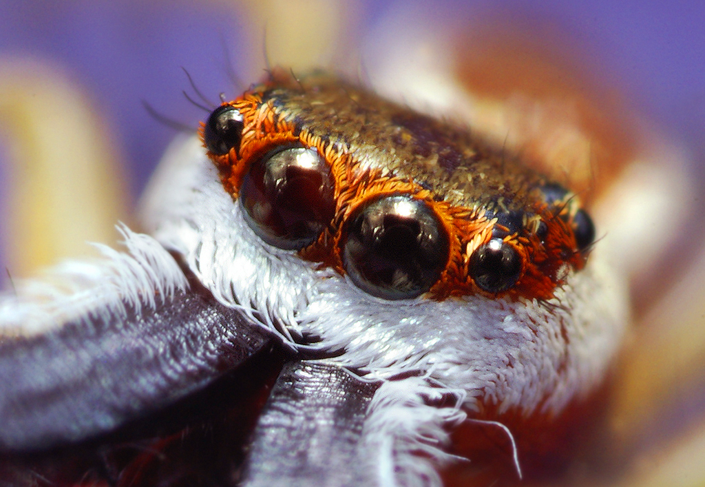 Eyes of a Hentzia palmarum jumping spider taken with a Pentax *ist DL